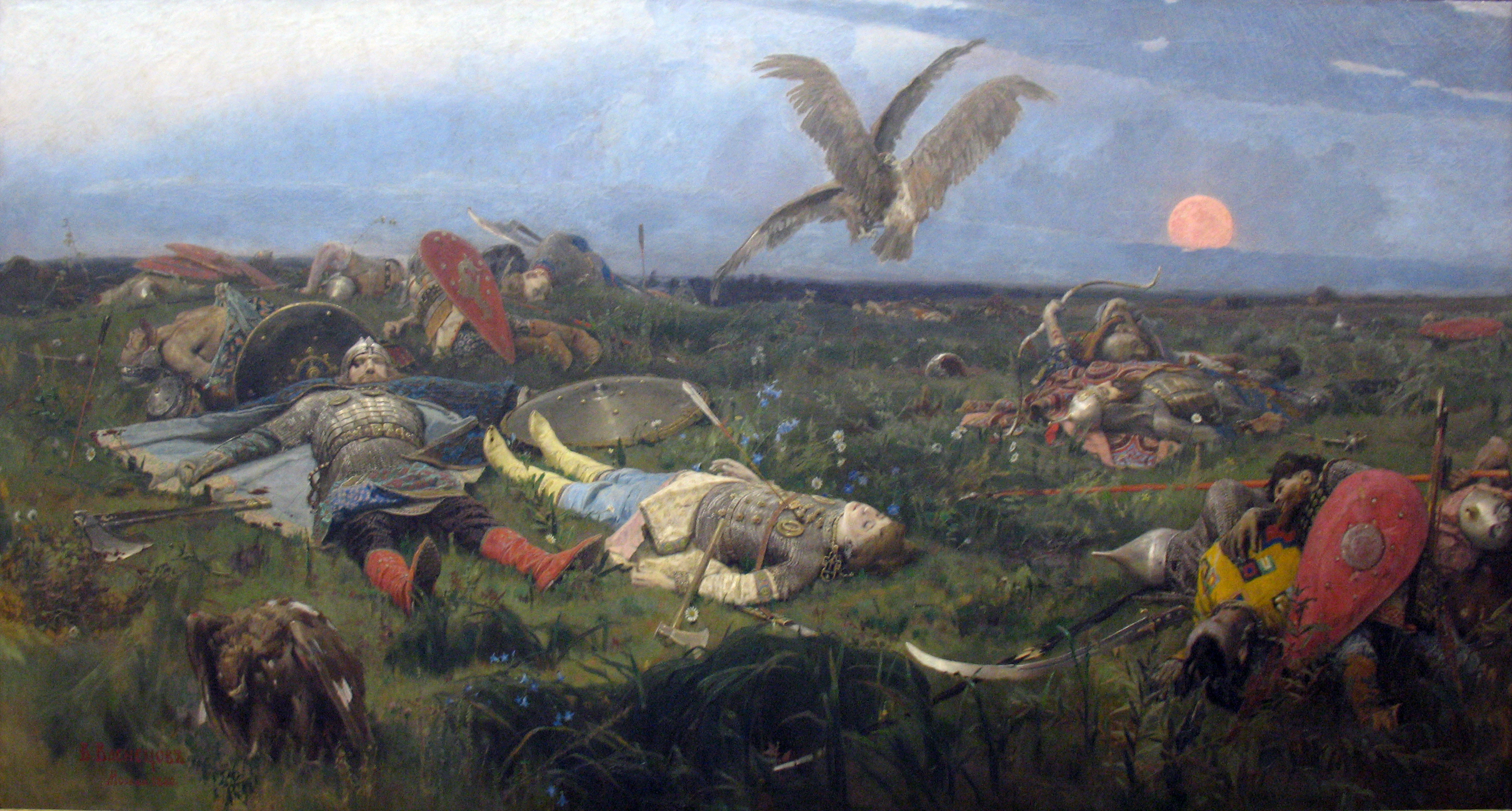 After the battle of Igor